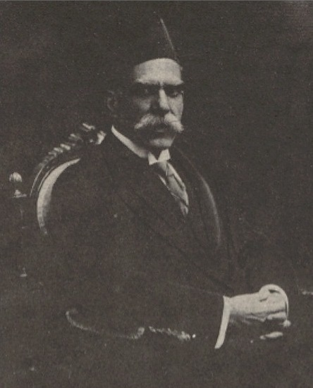 Black & White picture of Wahba Pasha circa 1914